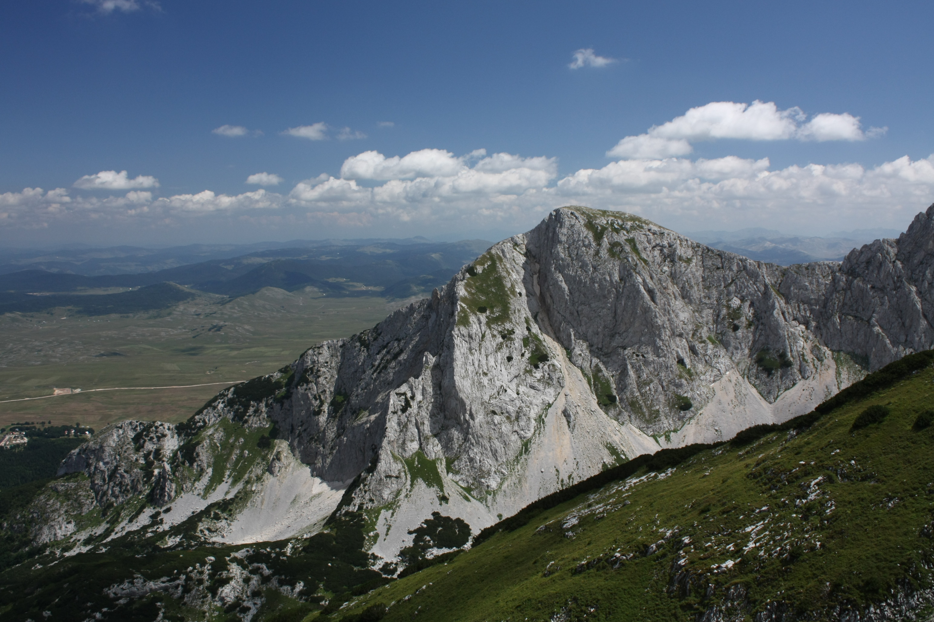 Durmitor National Park, Montenegro - Savin kuk